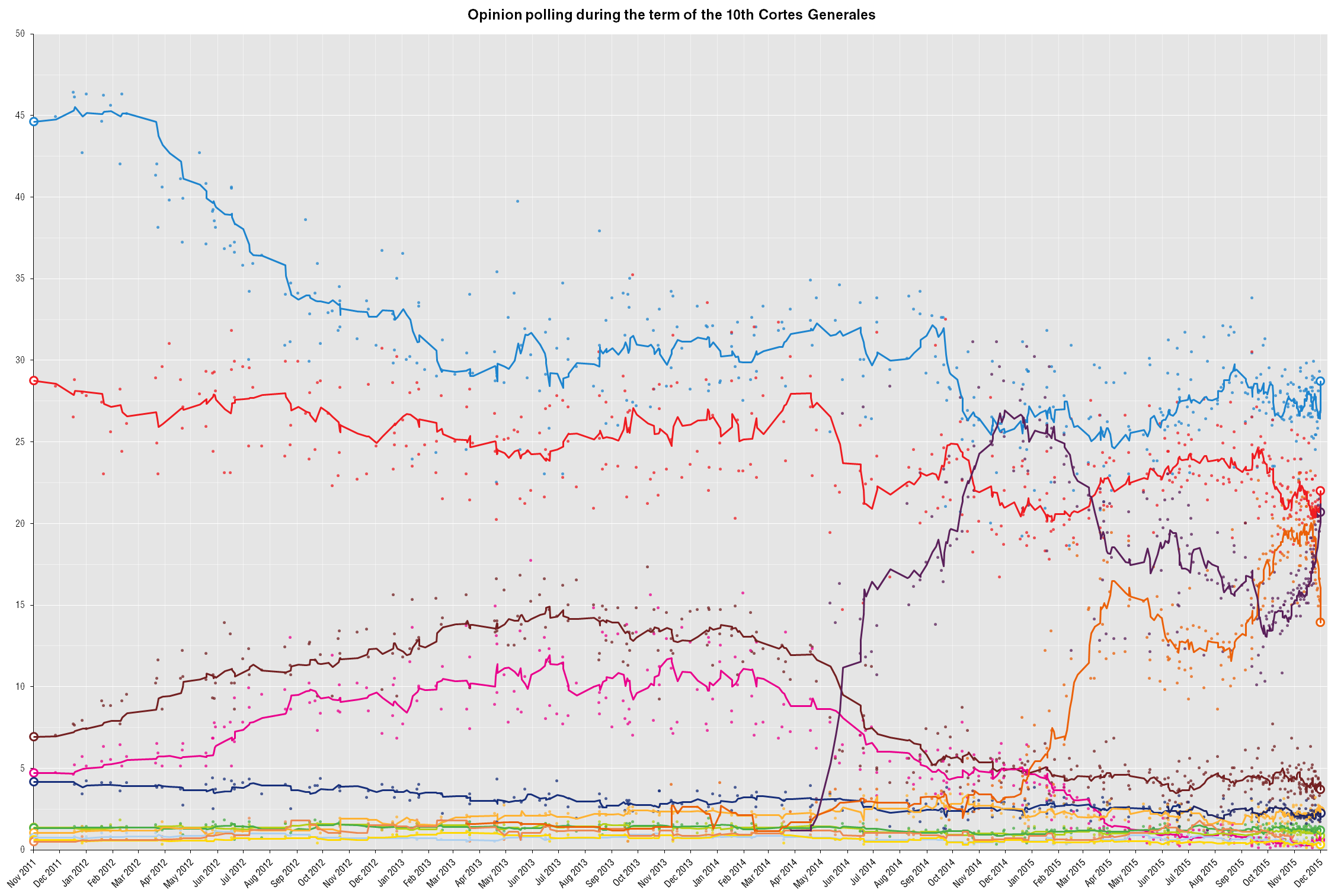 10-point average trend line of poll results from 20 November 2011 to 20 December 2015, with each line corresponding to a political party. PP PSOE IU/UPeC UPyD CiU Amaiur/EH Bildu PNV ERC Equo BNG CC Compromís C's Vox Podemos DiL